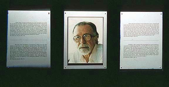 Manolis Andronikos in Memoriam, image from the Royal Tombs, Vergina, Central Macedonia, Greece